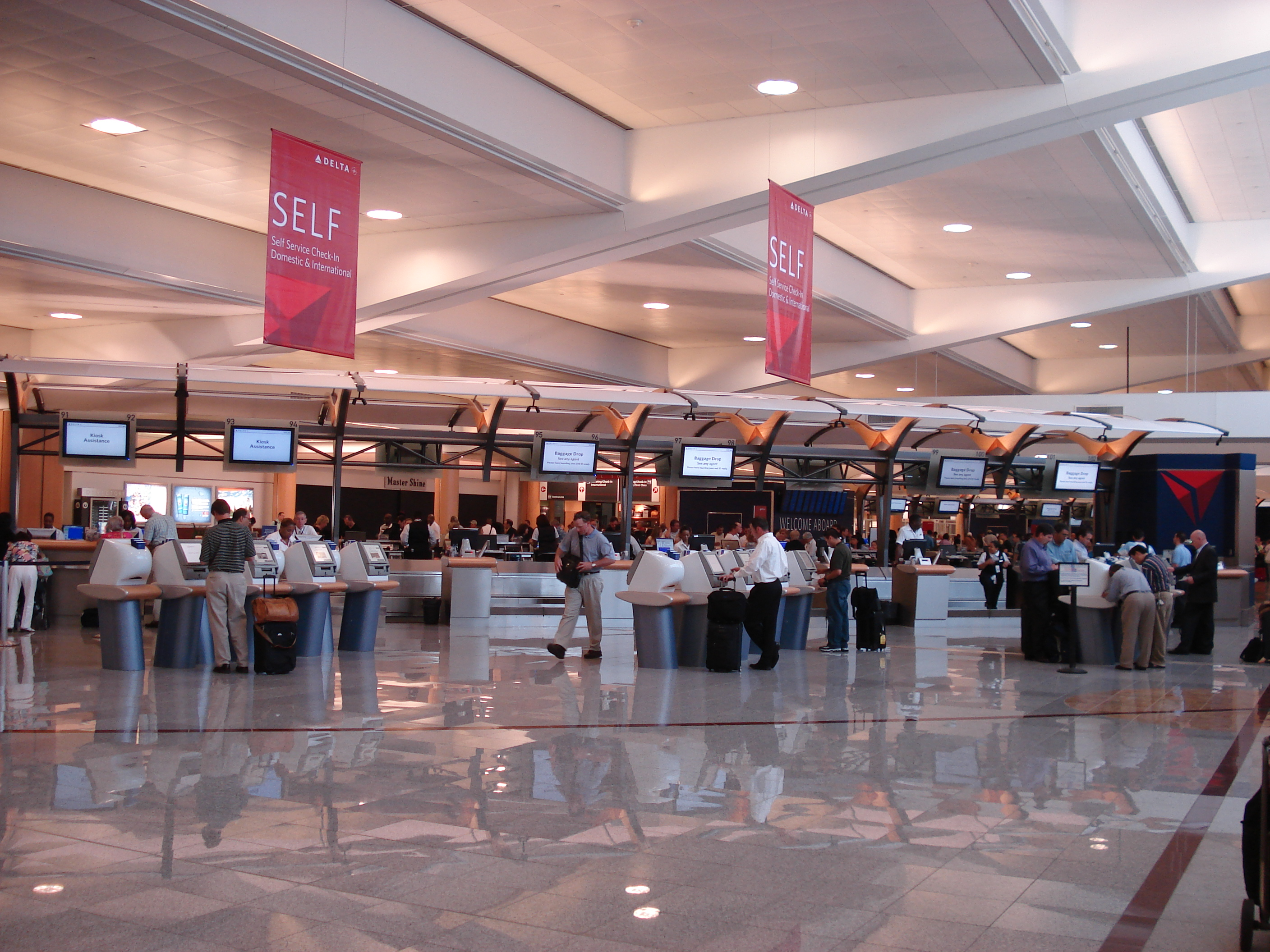 A line of automated and manned ticketing counters for Delta, Atlanta's major tenant airline.